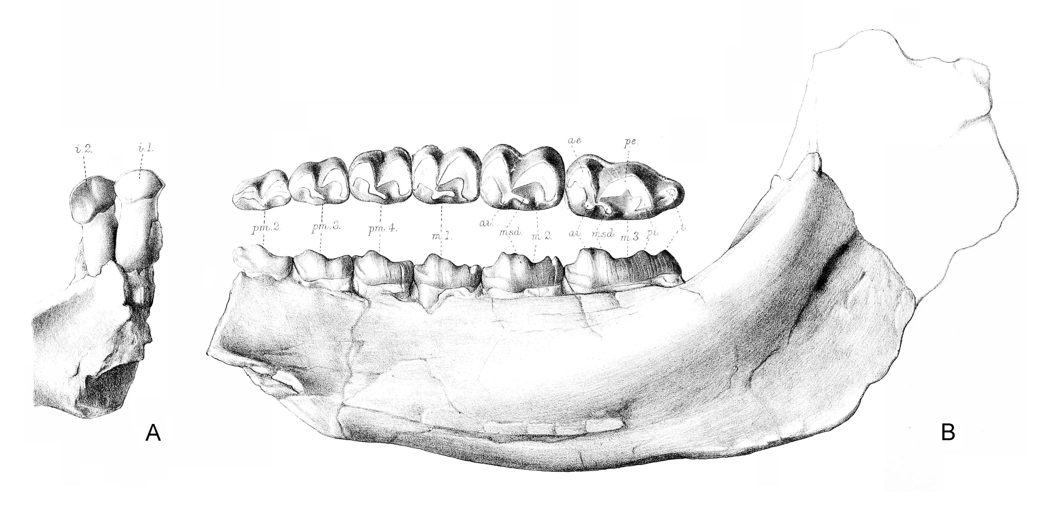 mandible of Titanohyrax andrewsi, first published by Charles W. Andrews 1906 (as Megalohyrax minor); Fayum, Egypt